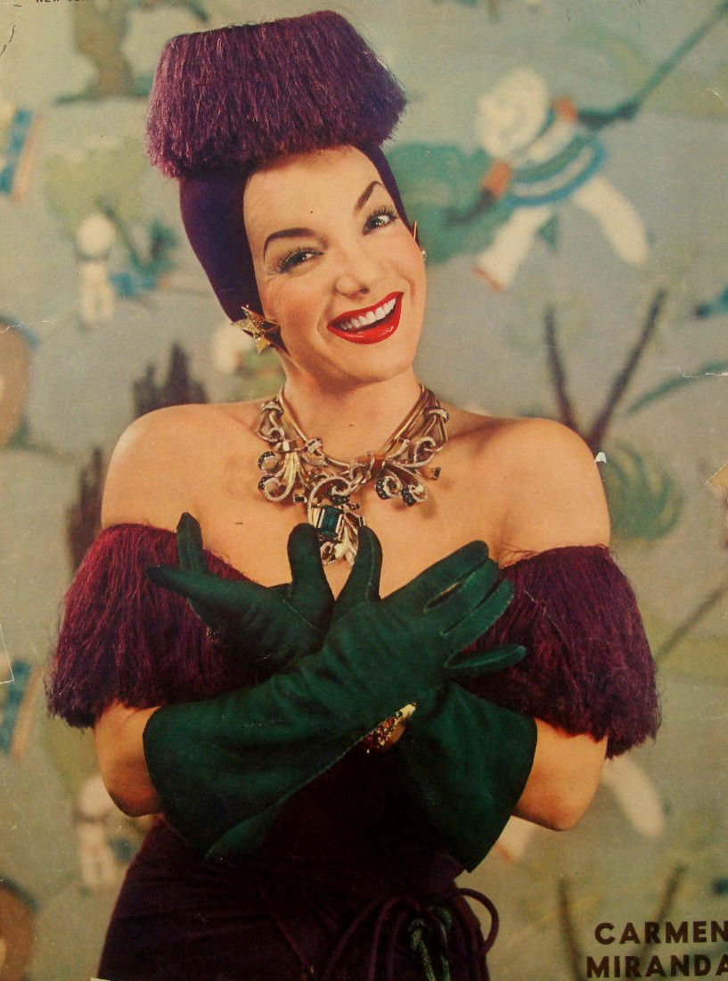 Photo of Carmen Miranda published by the New York Sunday News in 1943. Dating is at upper right of uncropped photo.